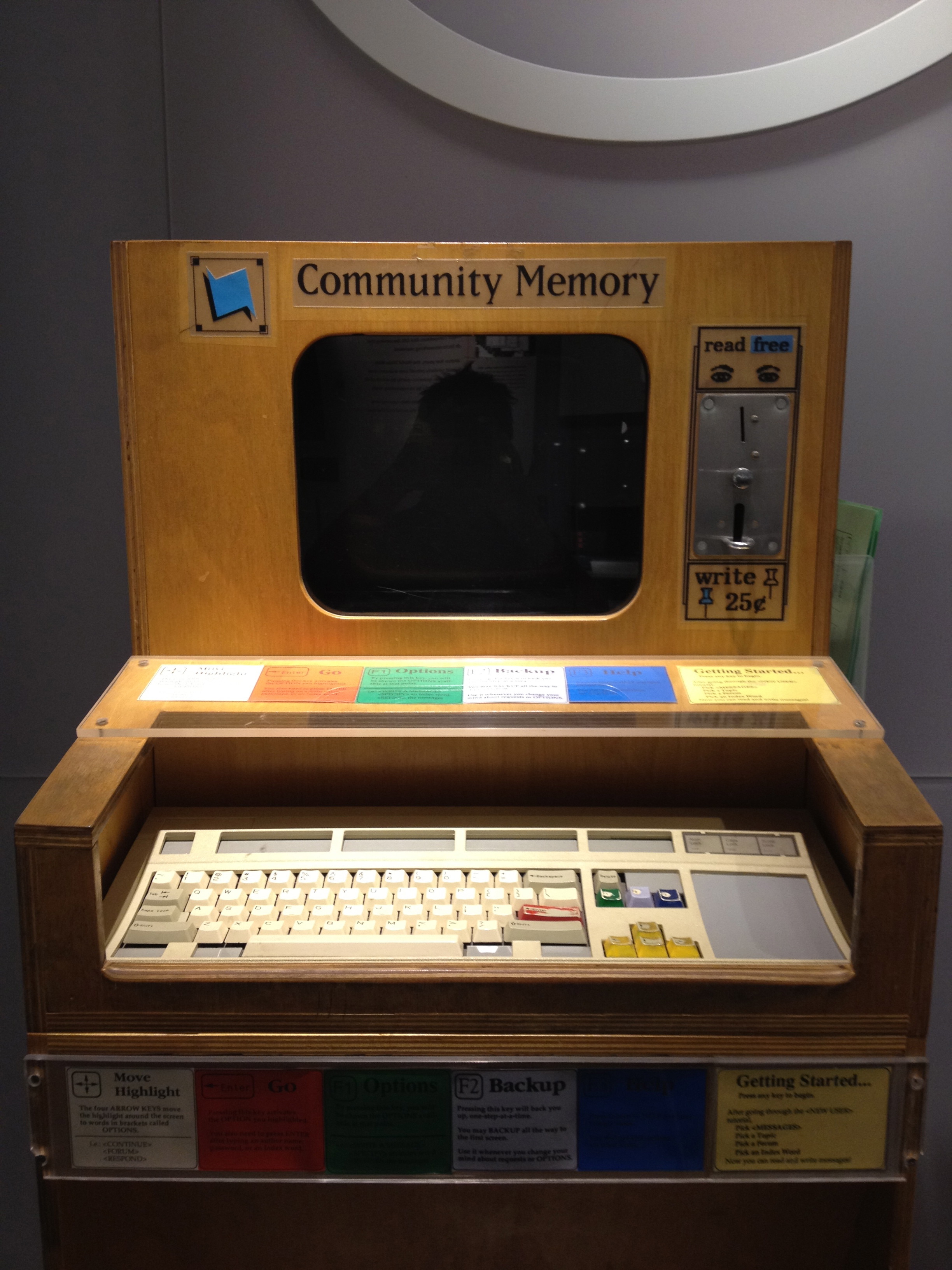 Community Memory Project terminal